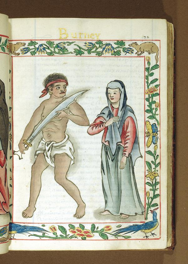 Couple from Borneo in the Philippines